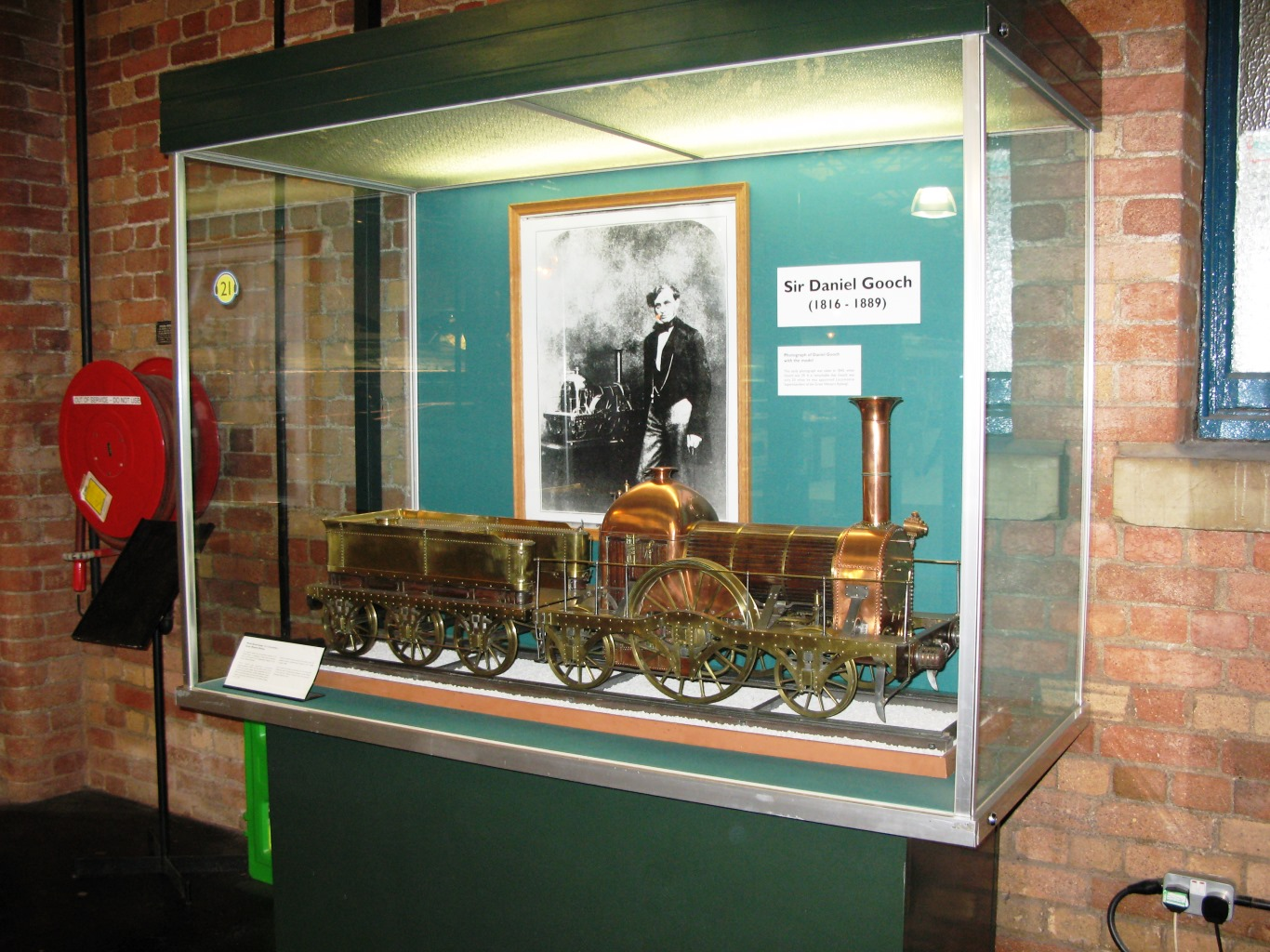 A display at the National Railway Museum in York, England. In the case is Sir Daniel Gooch's model of his famous Fire Fly class locomotive, along with a picture of him. He was the first locomotive superintendent of the Great Western Railway and later became its chairman.